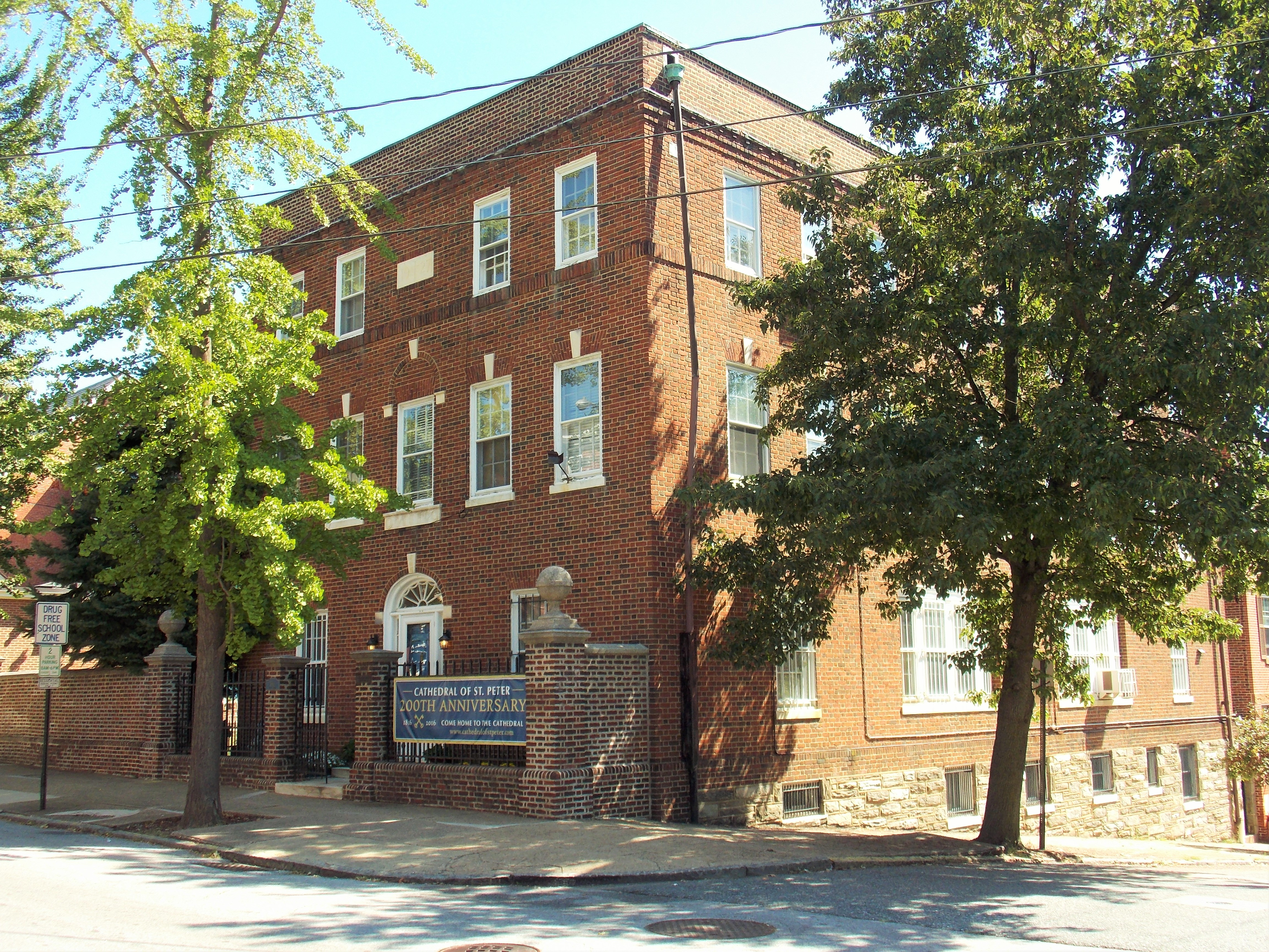 The rectory at the Cathedral of St. Peter in Wilmington, Delaware.